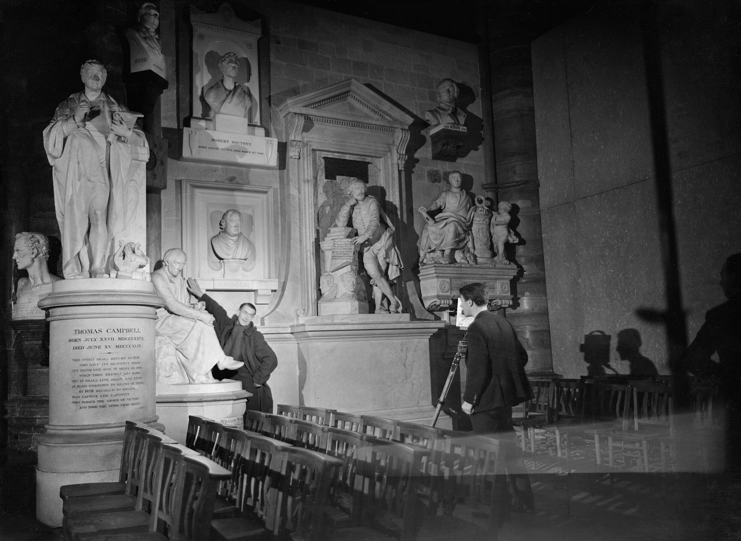 Director Humphrey Jennings stretches to touch a piece of sculpture in Poets' Corner in Westminster Abbey, as he suggests a shot for camera operator Chick Fowle of the Crown Film Unit in January 1941. Director Humphrey Jennings (left) stretches up to touch a piece of sculpture in Poets' Corner, as he suggests a shot for Camera Operator Chick Fowle of the Crown Film Unit, probably during the filming of 'Words For Battle' in Westminster Abbey, 1941.